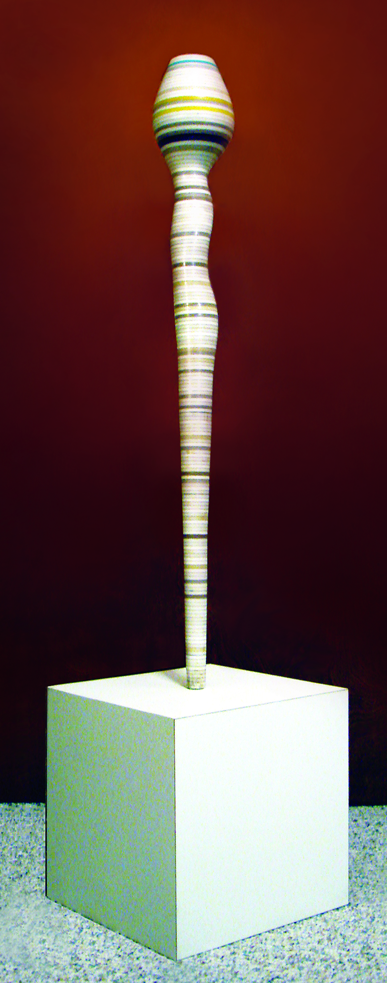 Quad 2: World's first computer-generated sculpture